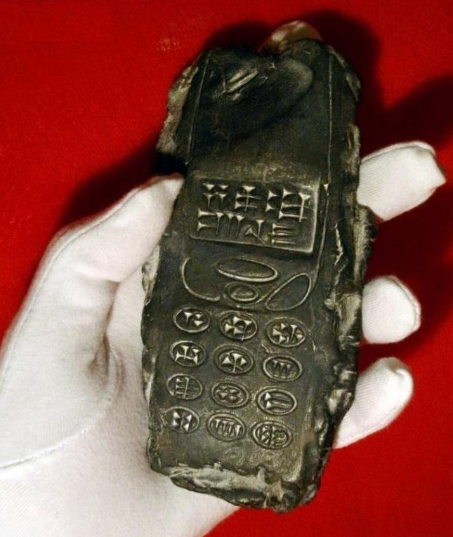 Clay model of an antique-looking mobile phone